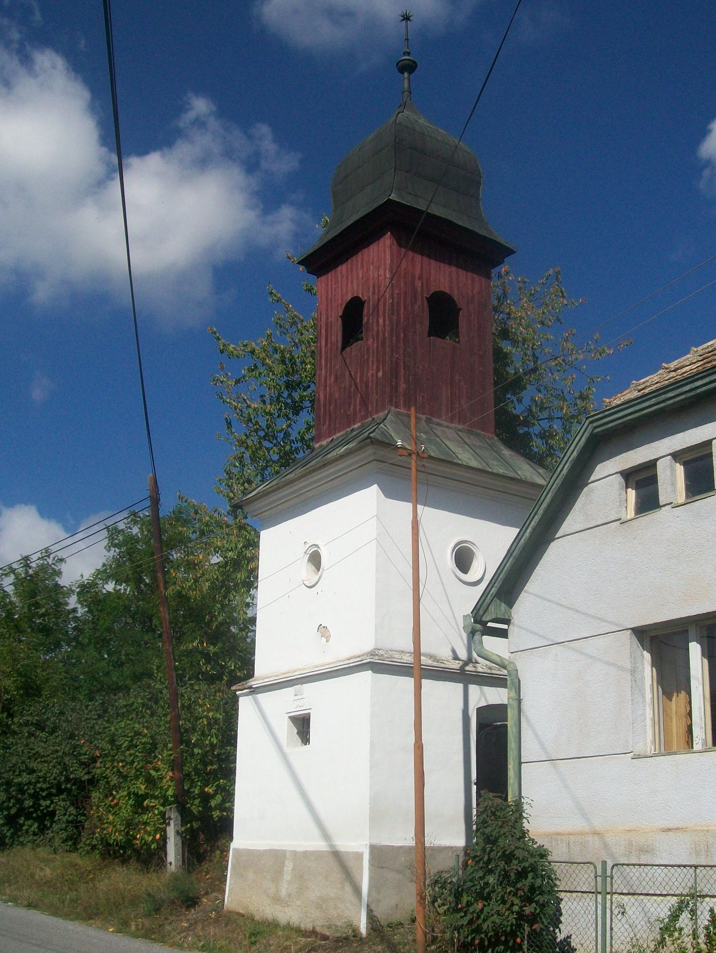 Belfry of Dúžava (Rimavská Sobota)